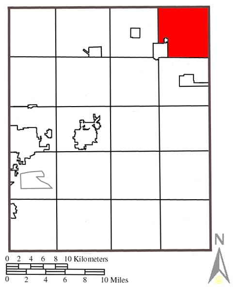 Map of Portage County, Ohio with Nelson Township highlighted.